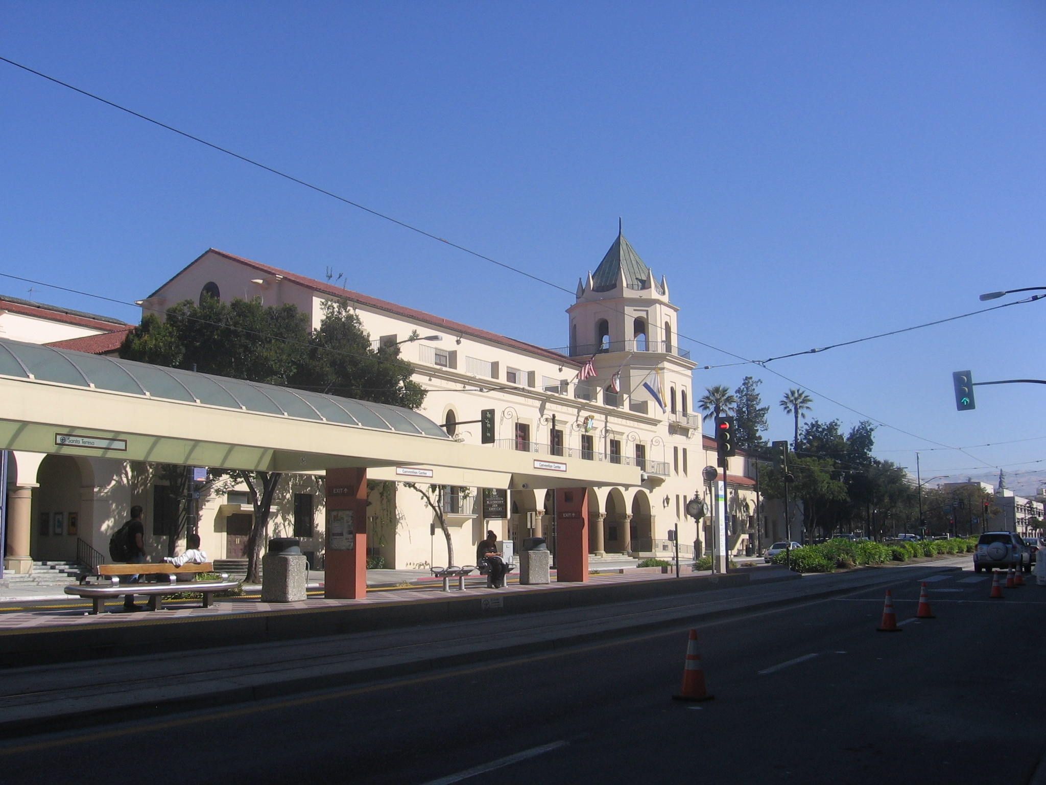 The Convention Center (VTA) light rail station in San José, California, USA.